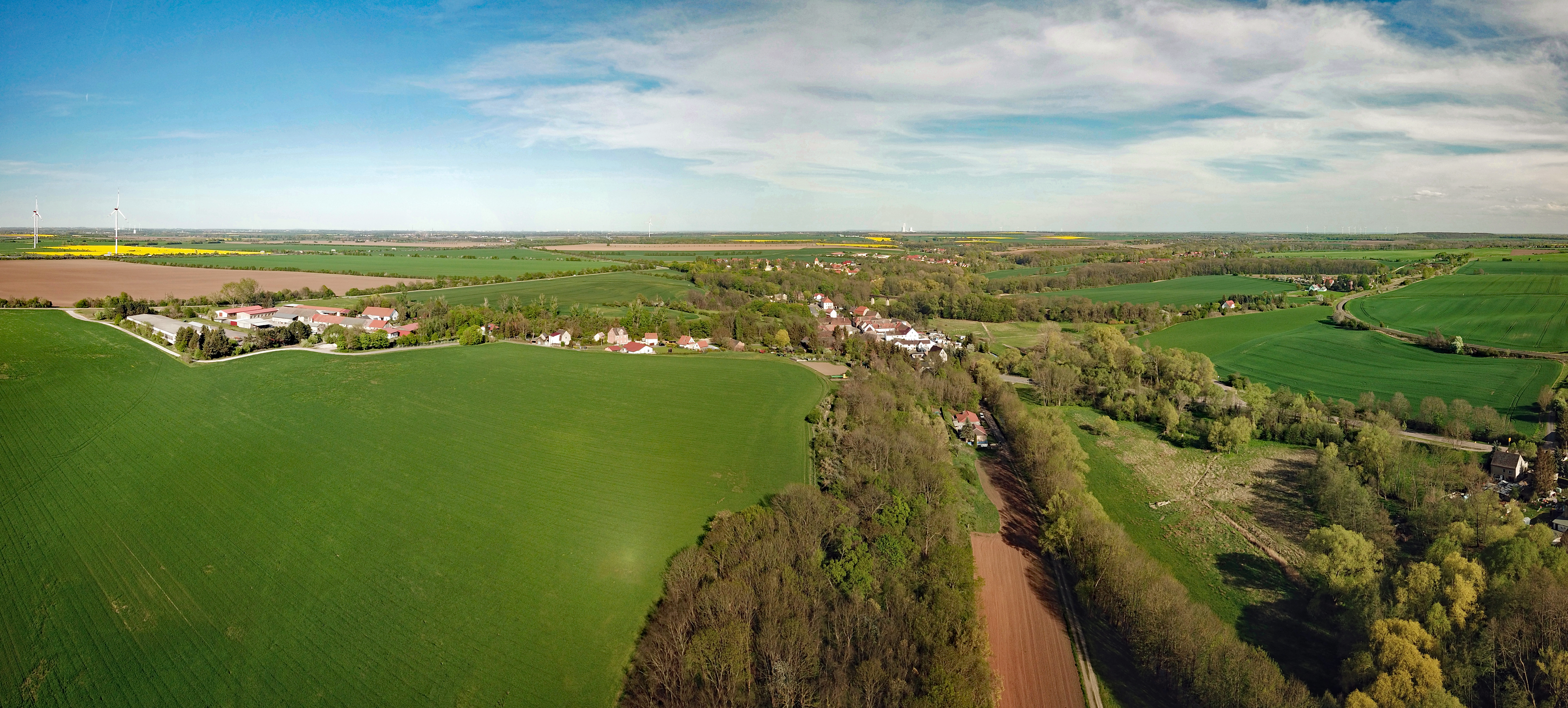 Rippach, Lützen, Saxony-Anhalt, Germany